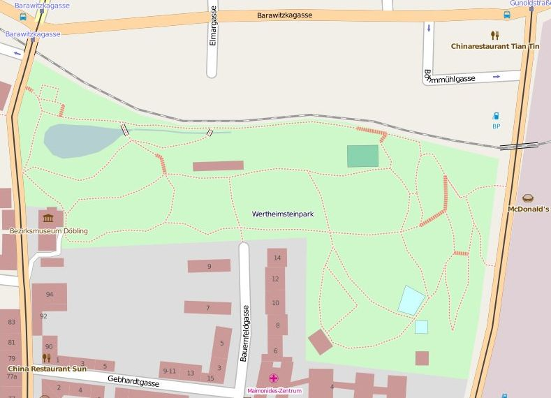 Map of the Wertheimsteinpark in Vienna